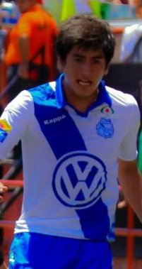 Mexican player Aldo Polo